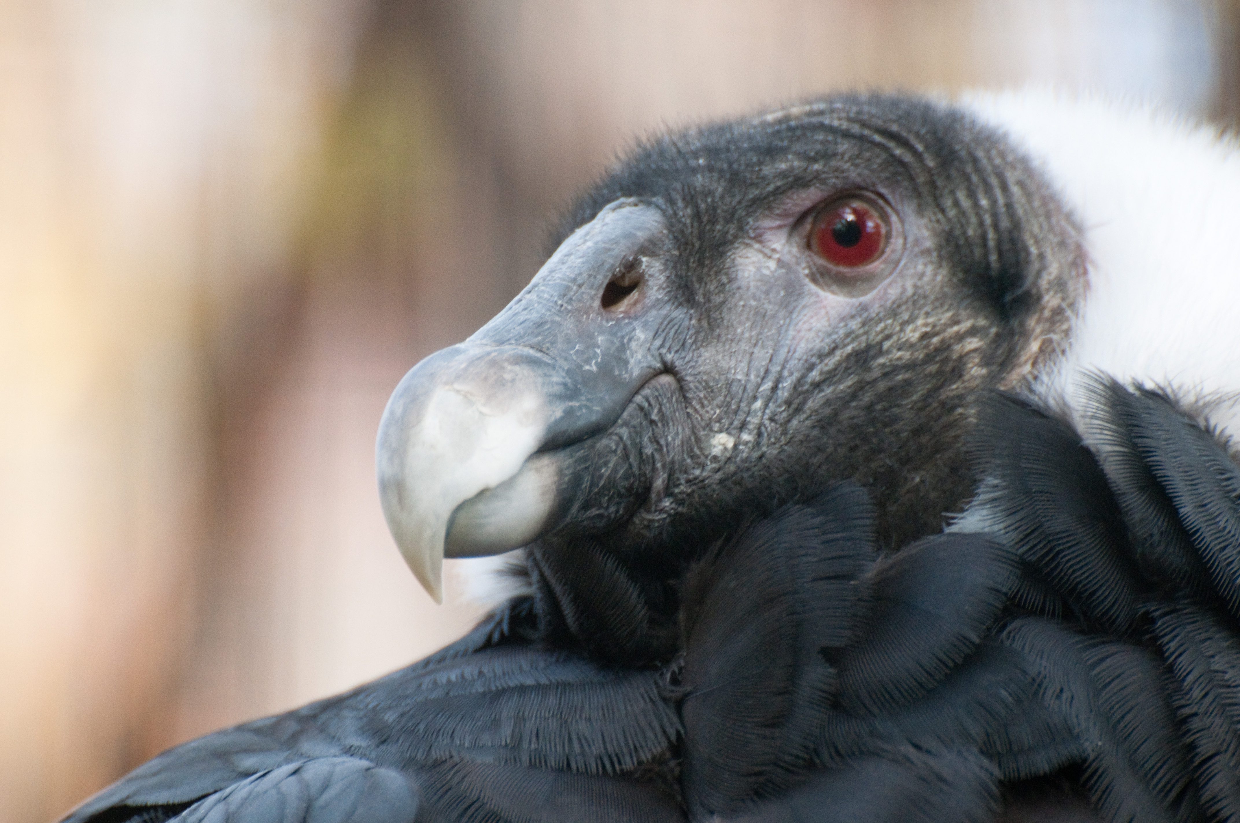 A female Andean Condor at Franklin Park Zoo, Massachusetts, USA.